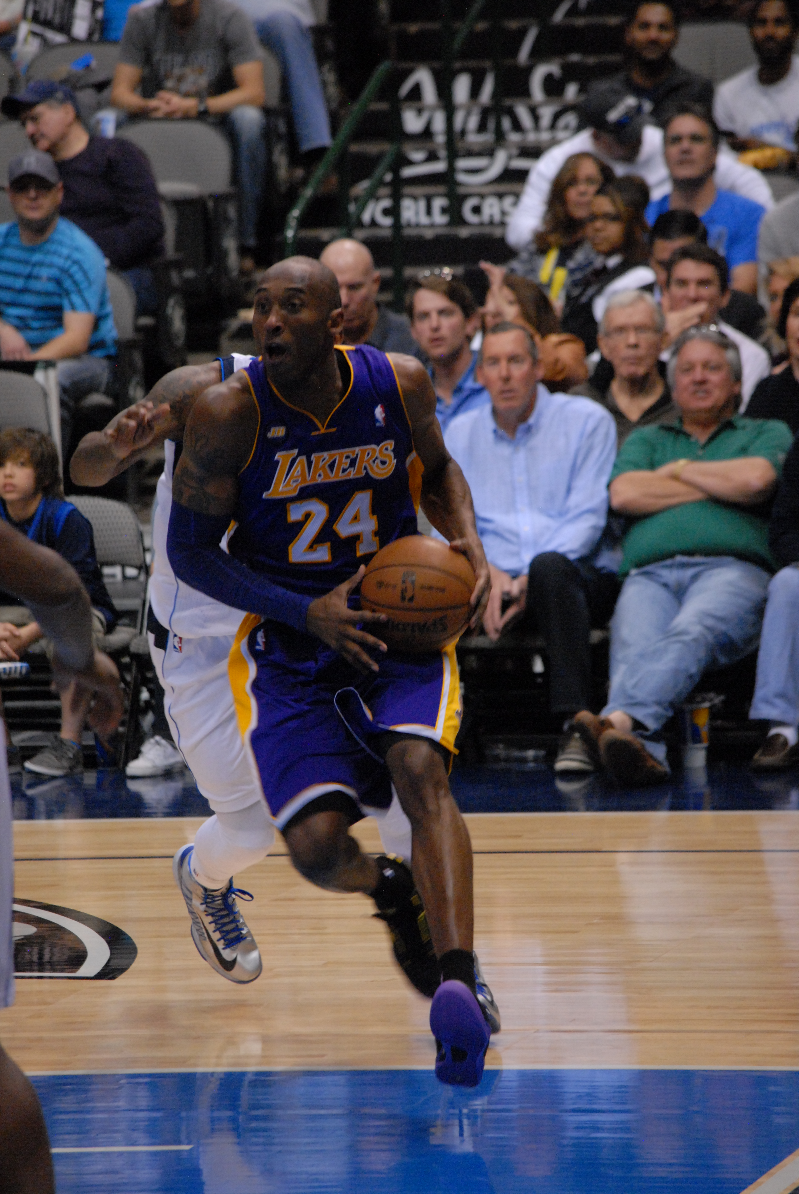 Kobe drives 2 the bucket against the Dallas mavericks